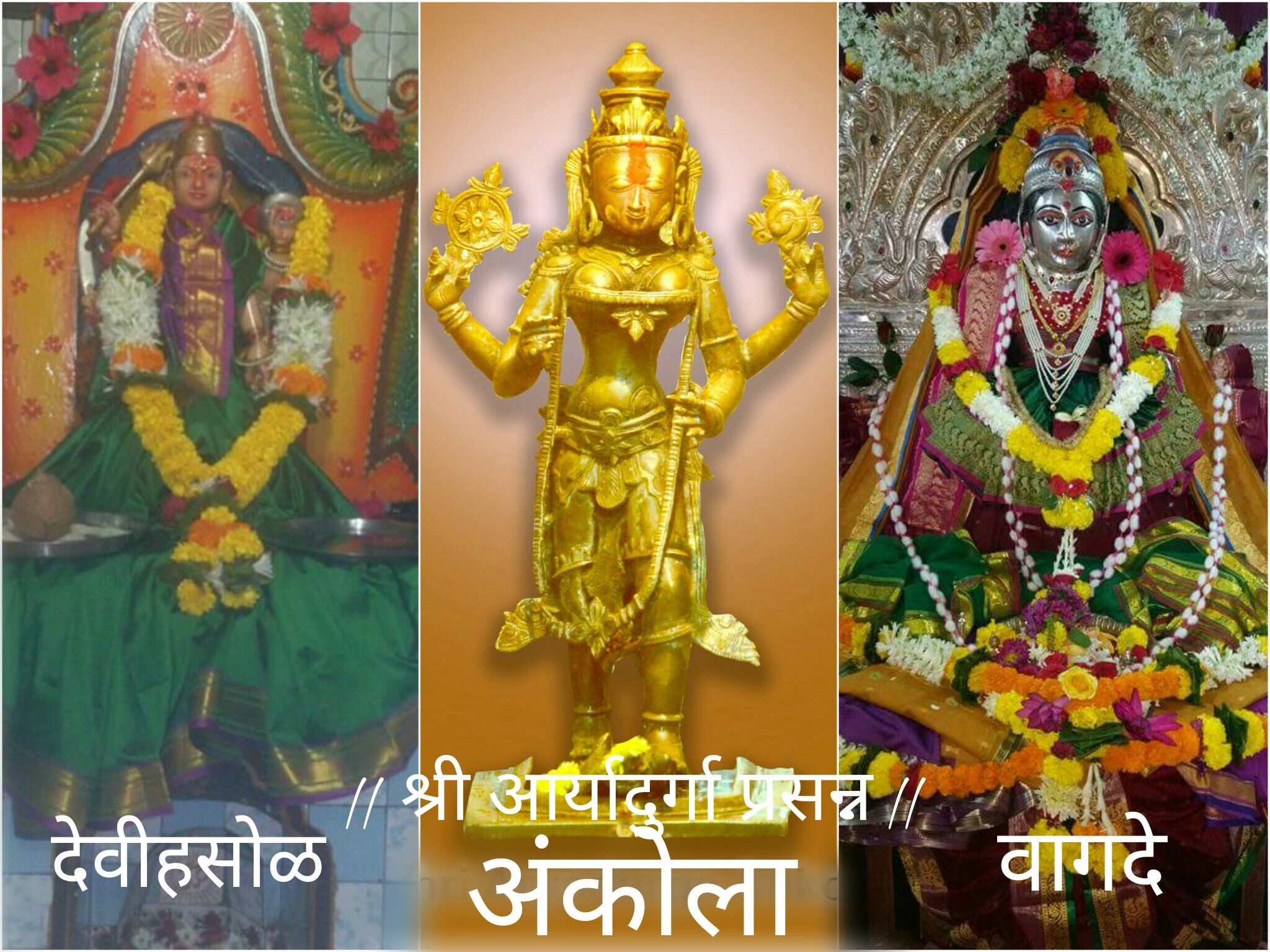 Aryadurga mata